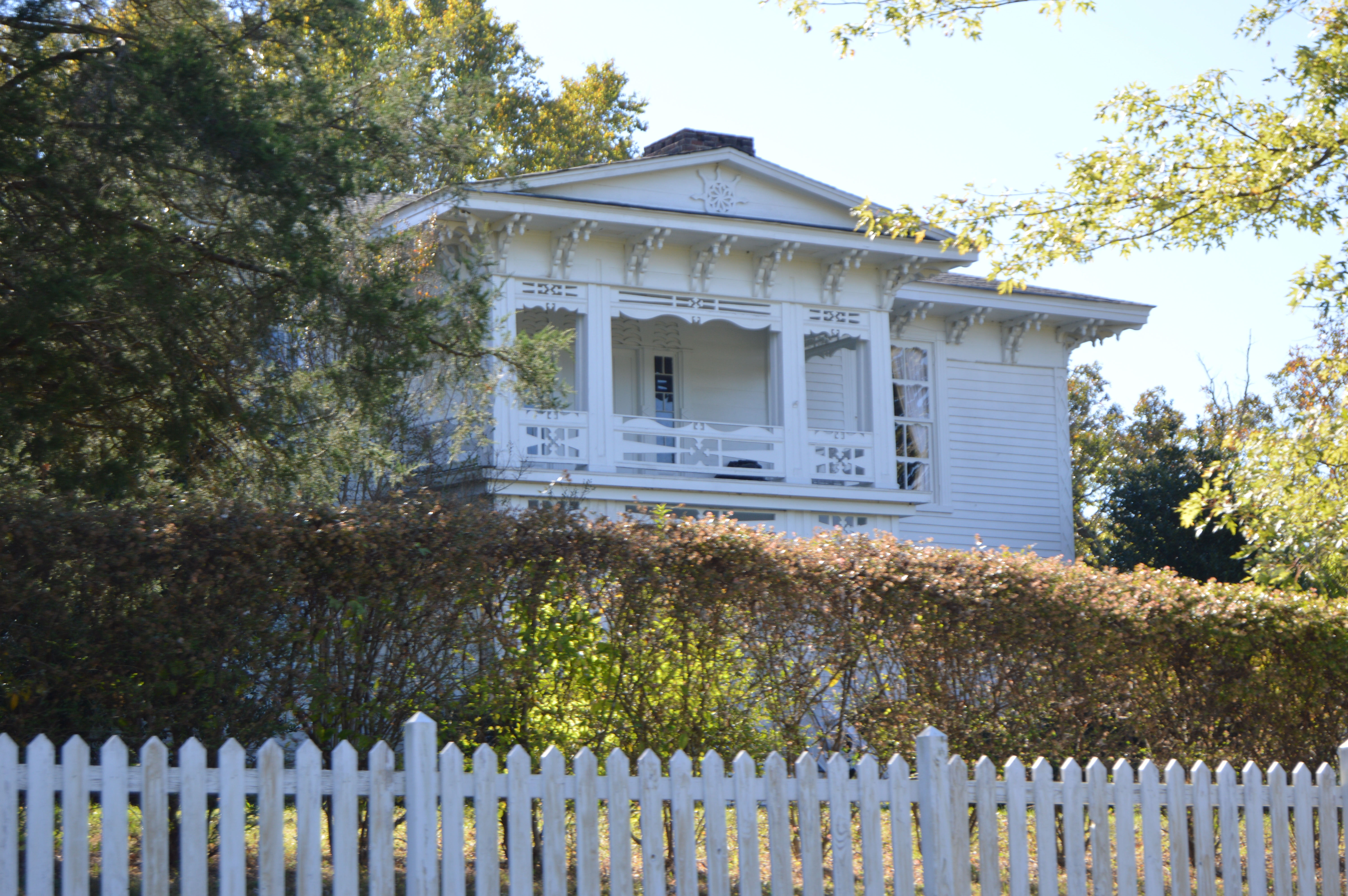 Front and northeastern side of the Garland-Buford House, located on Solomon Lea Road north of Leasburg in Caswell County, North Carolina, United States. Built in 1877, it is listed on the National Register of Historic Places.